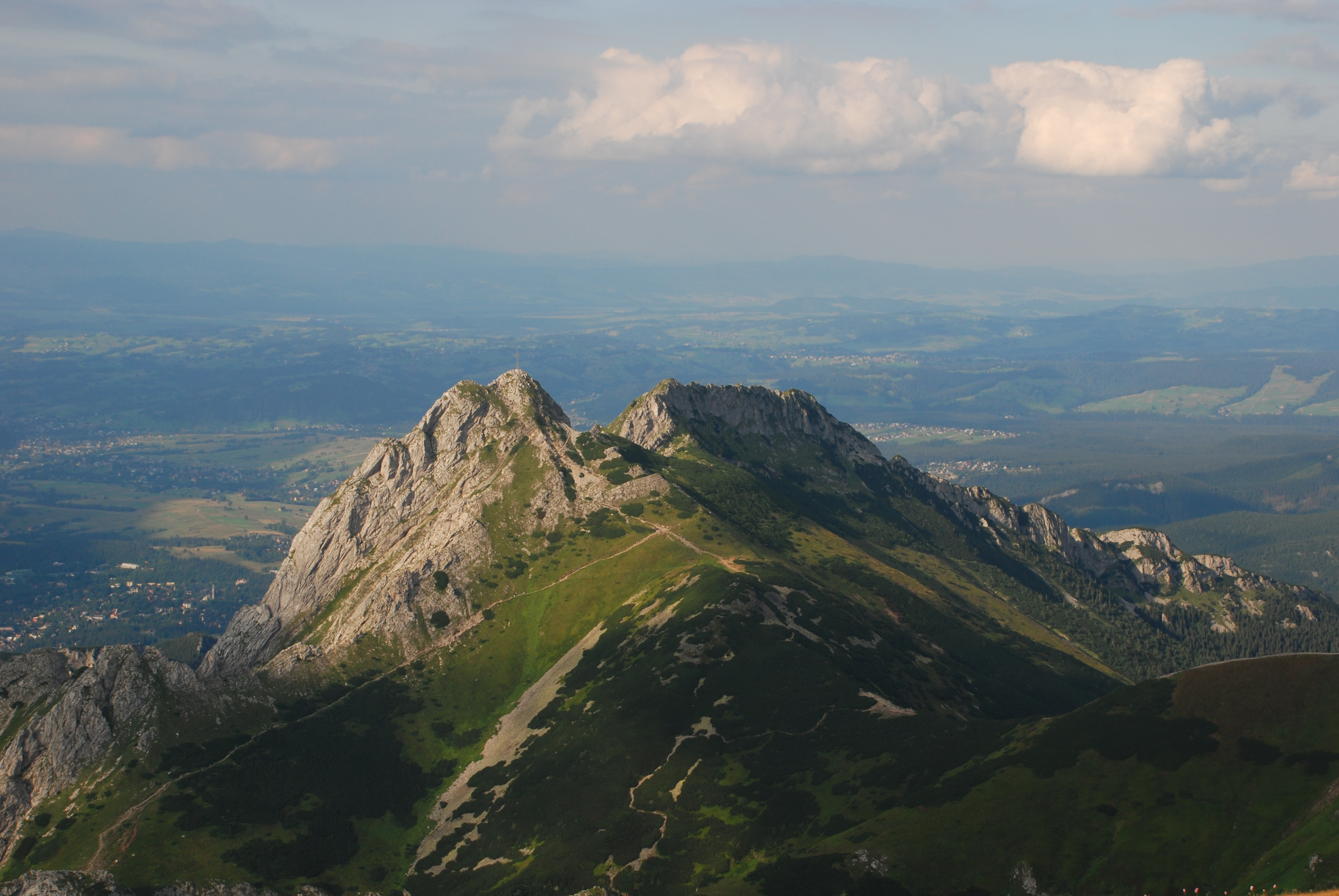 Giewont